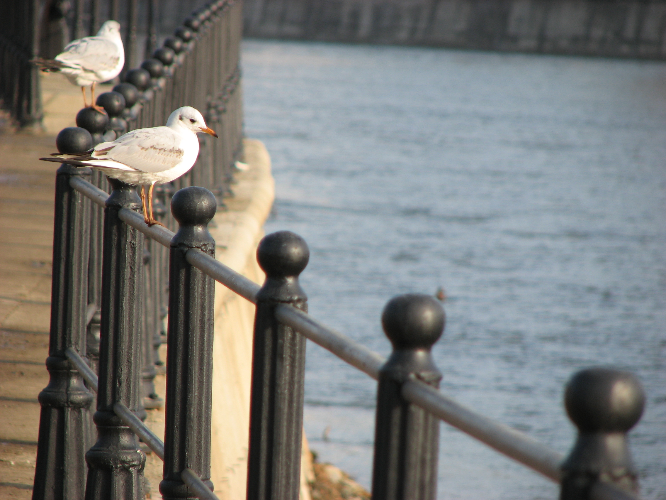 Black-headed Gulls